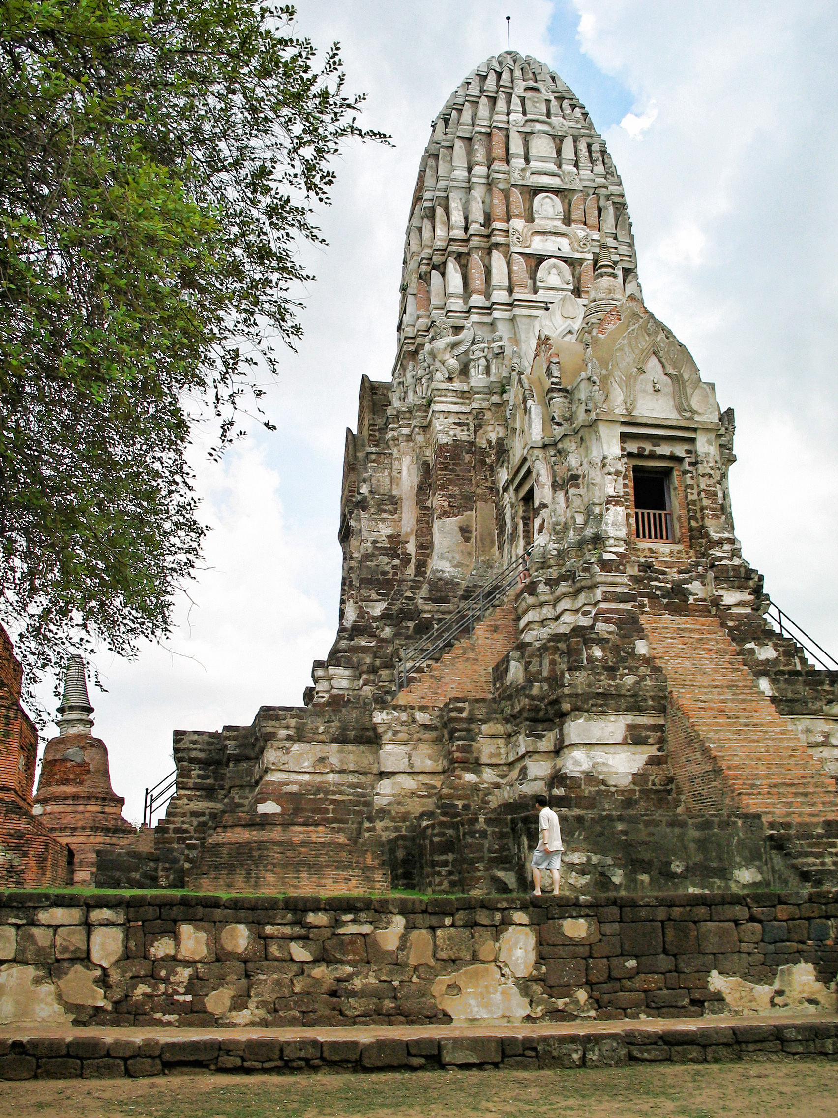 Wat Ratchaburana (also Wat Ratburana), Ayutthaya historical park, Thailand